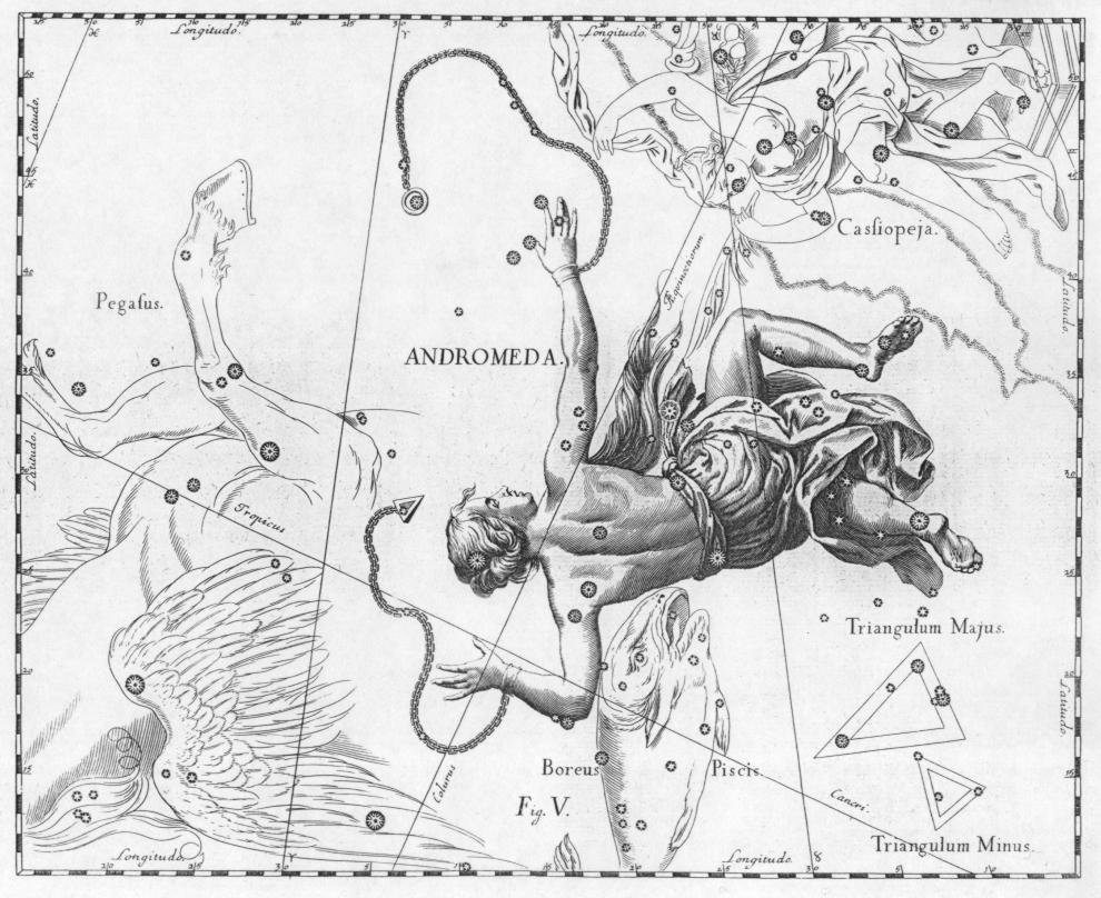 The Andromeda constellation from Uranographia by Johannes Hevelius. The view is mirrored following the tradition of celestial globes, showing the celestial sphere in a view from "ouside"